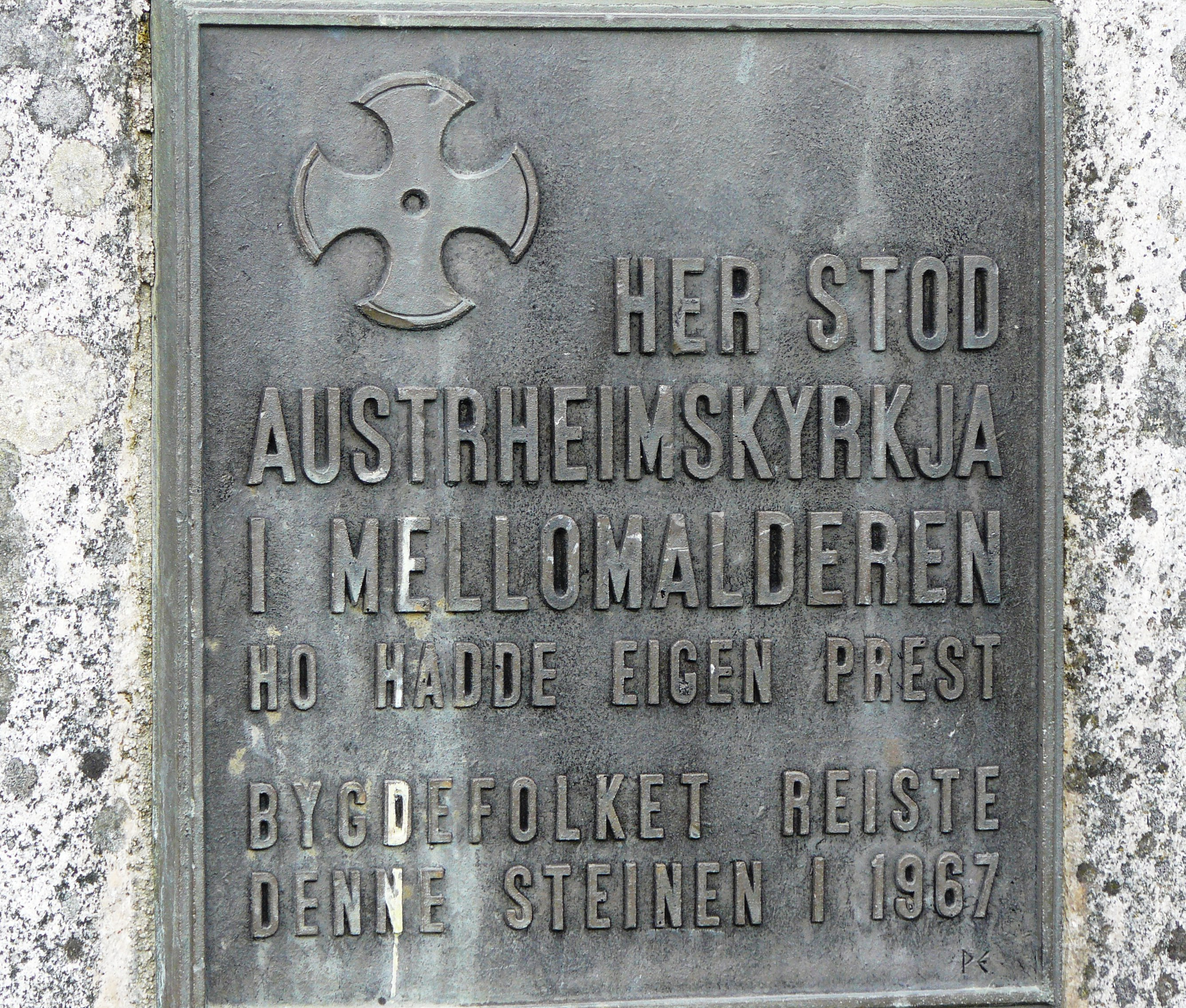 “Here was the Austrheim church placed in the middle age. She had her own priest. The people of the county raised this stone in 1967” PE is the signature in the local artist Petter Eide, who designed the cross. The cross is made from a broken cross-arm in stone found by a local farmer in 1940 while ploughing his fields.